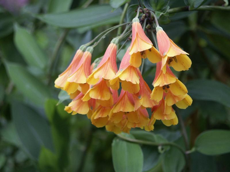 Bomarea multiflora Mirb., Royal Botanic Gardens, Kew, UK